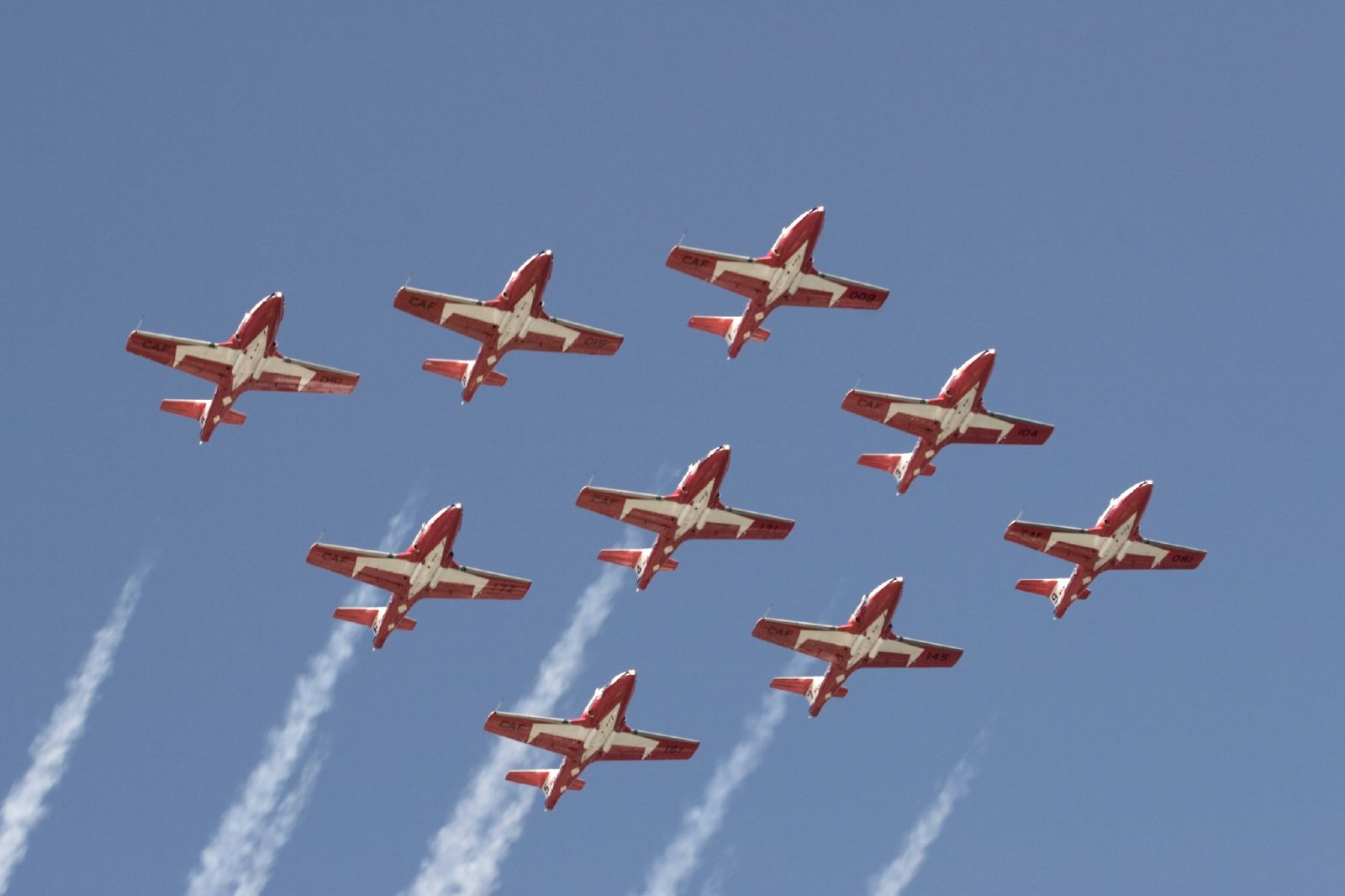 The Snowbirds in the Big Diamond formation at the Canadian International Air Show, Toronto - september 2, 2007.